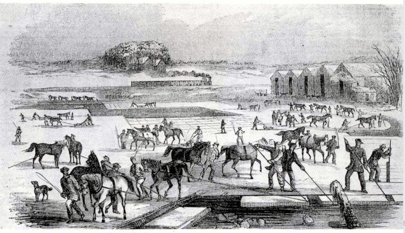 Ice Harvesting, Massachusetts, early 1850s